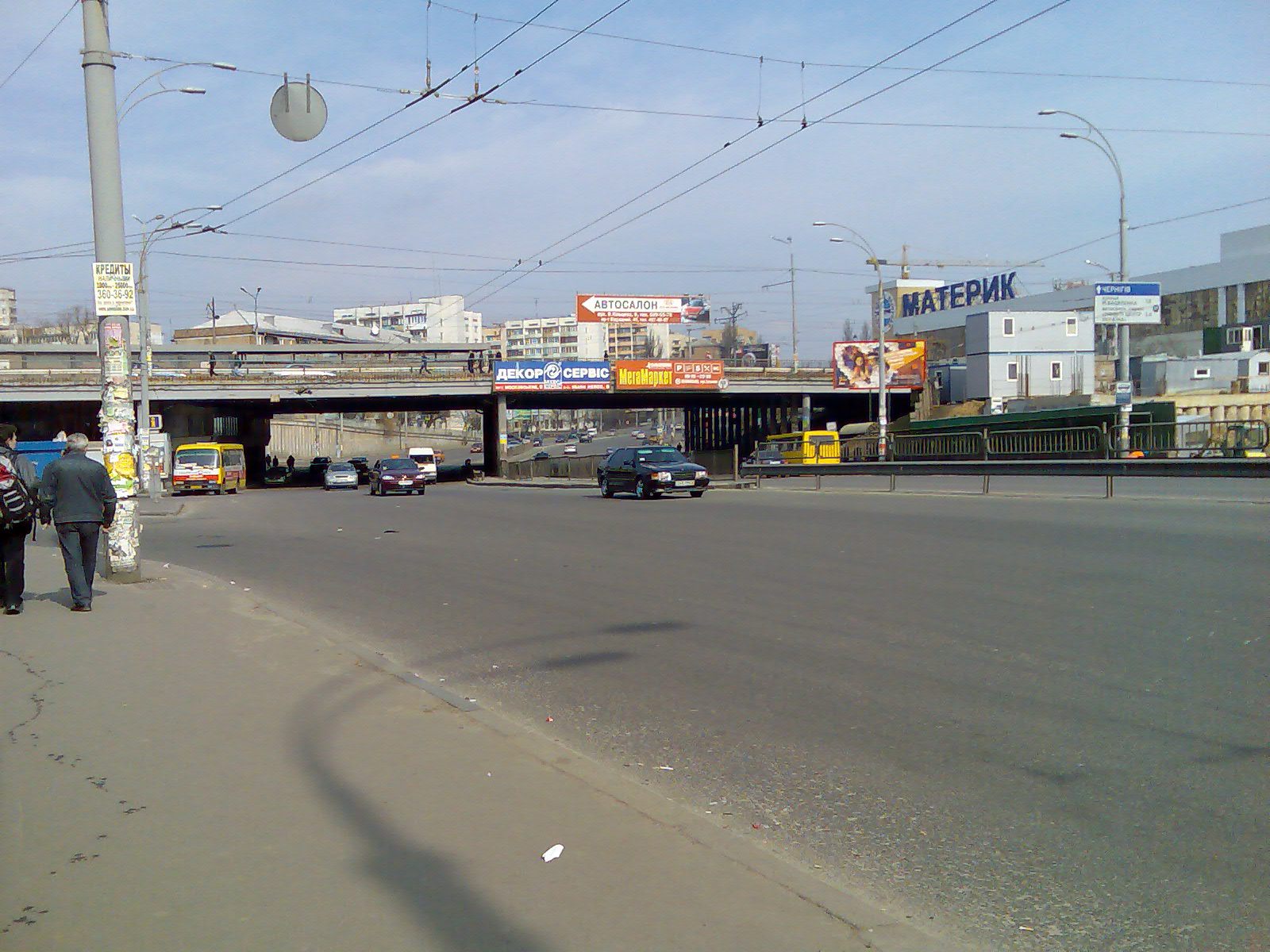 Industrial Bridge in Kiev